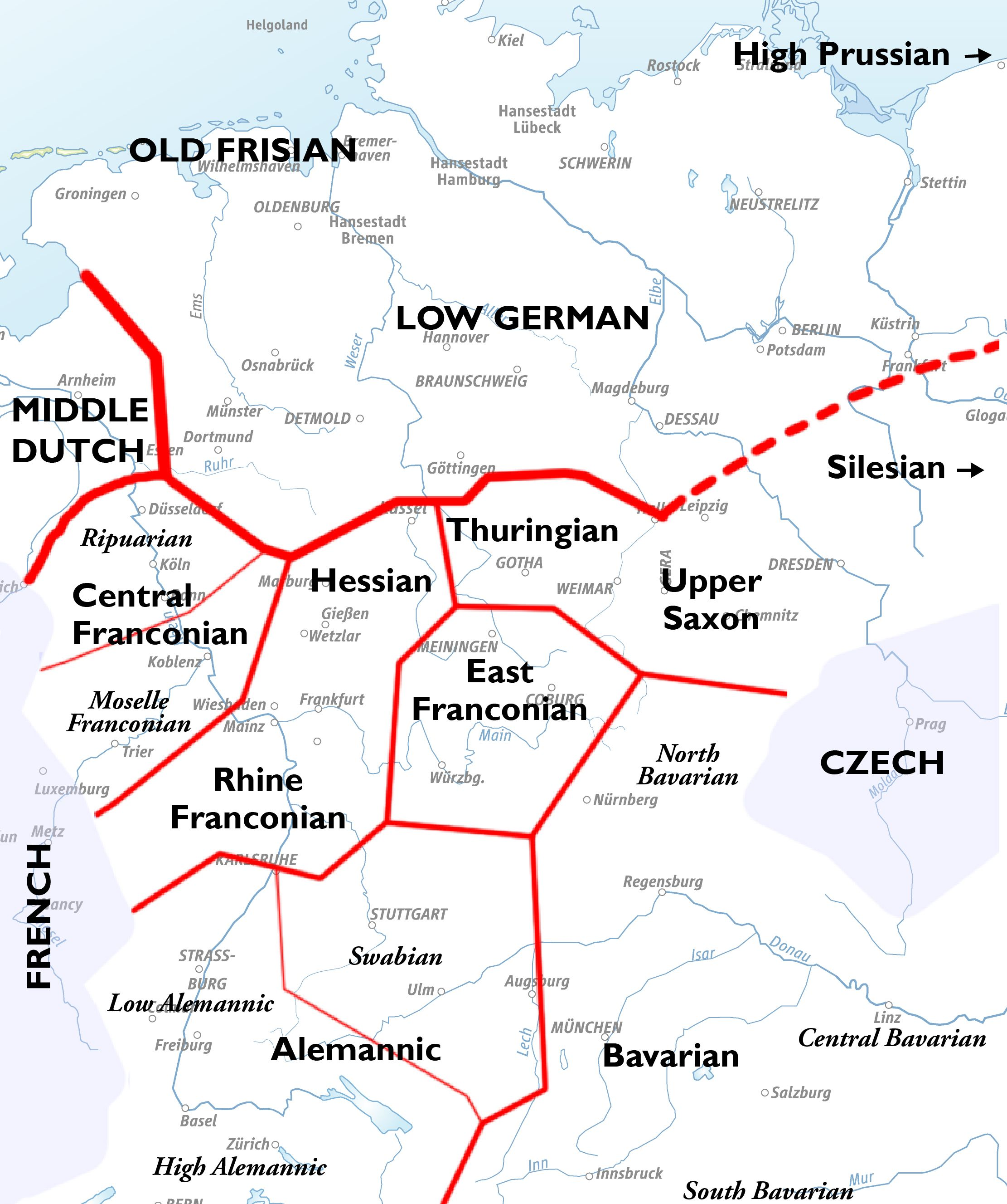 Map showing the approximate dialect boundaries of Middle High German, 1050-1350